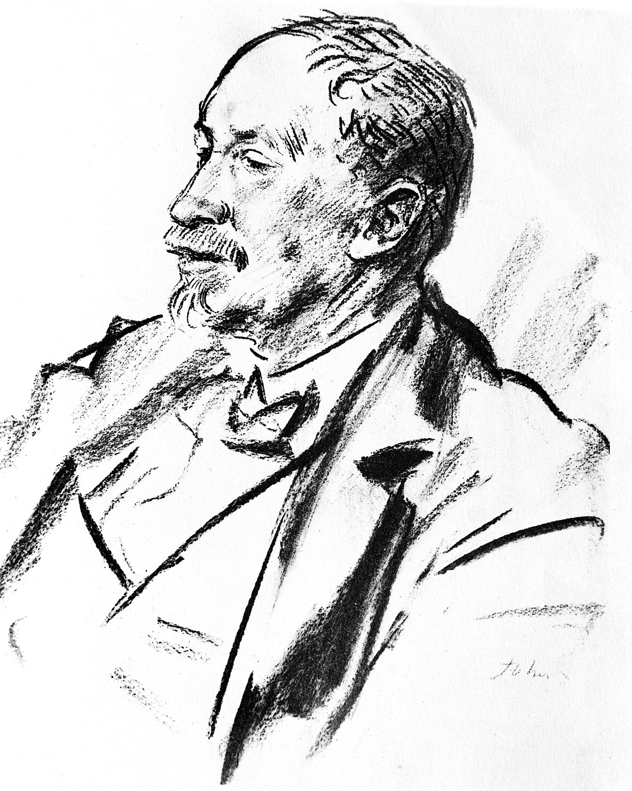 Prof. D.G. Hogarth M.A. Wellcome Images Keywords: D.G. Hogarth